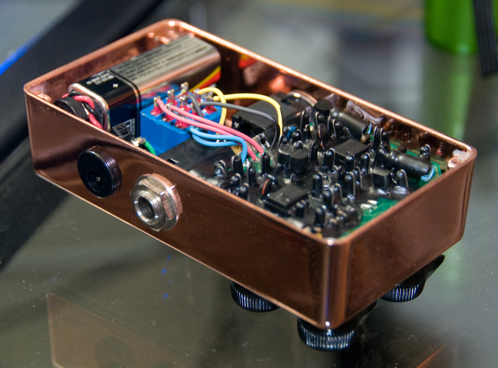 Xotic BB Preamp (Copper) - Internal